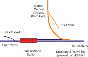 Railway routes at Templecombe in 1862